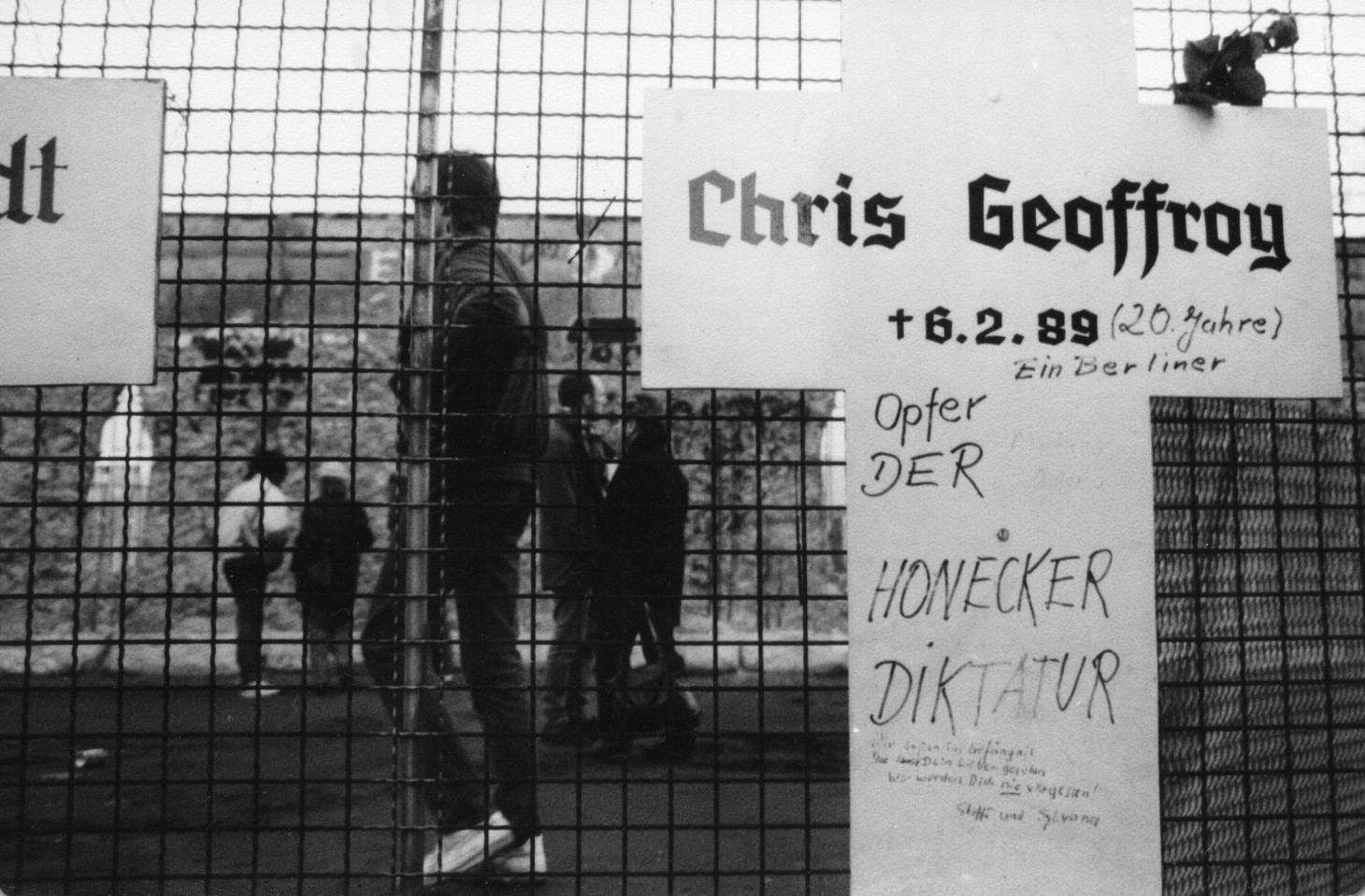 Commemorative tablet to Chris Gueffroy, the last person to die trying to escape across the Berlin Wall. In the background is the partly destroyed Wall, near Reichstag (building).